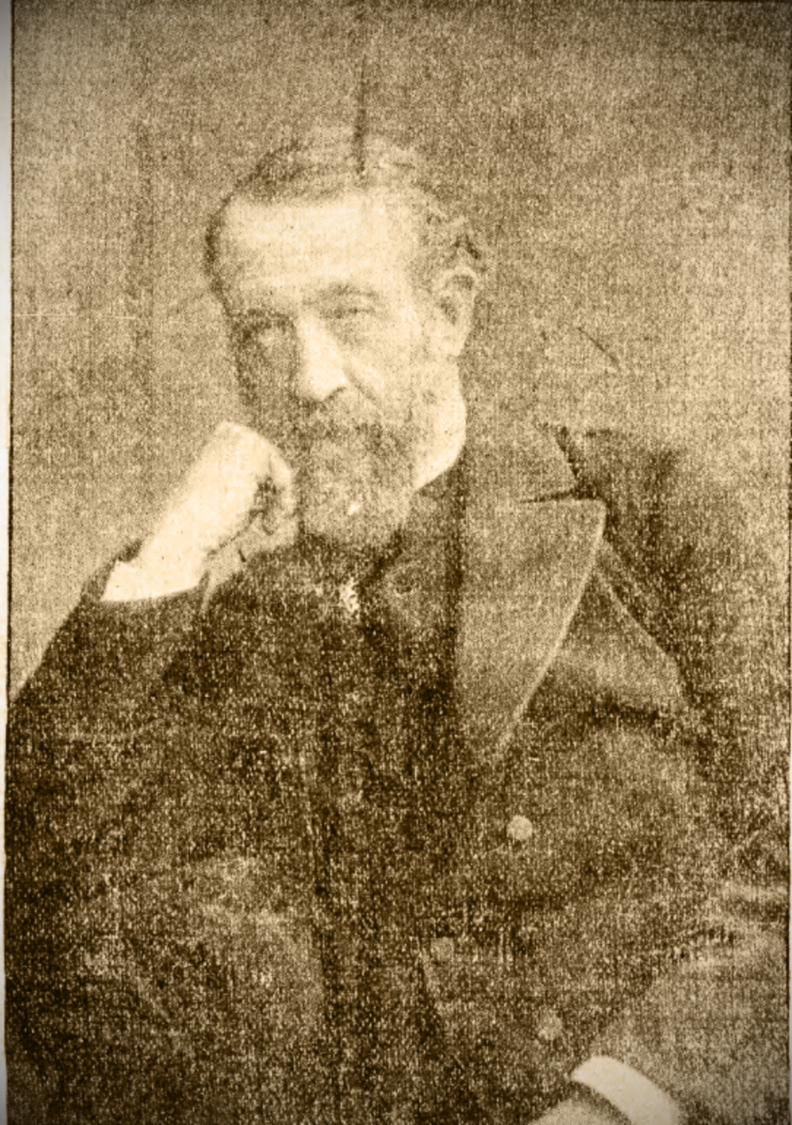 Owen Griffith (Giraldus 1832 - 1896) Baptist minister, editor and author